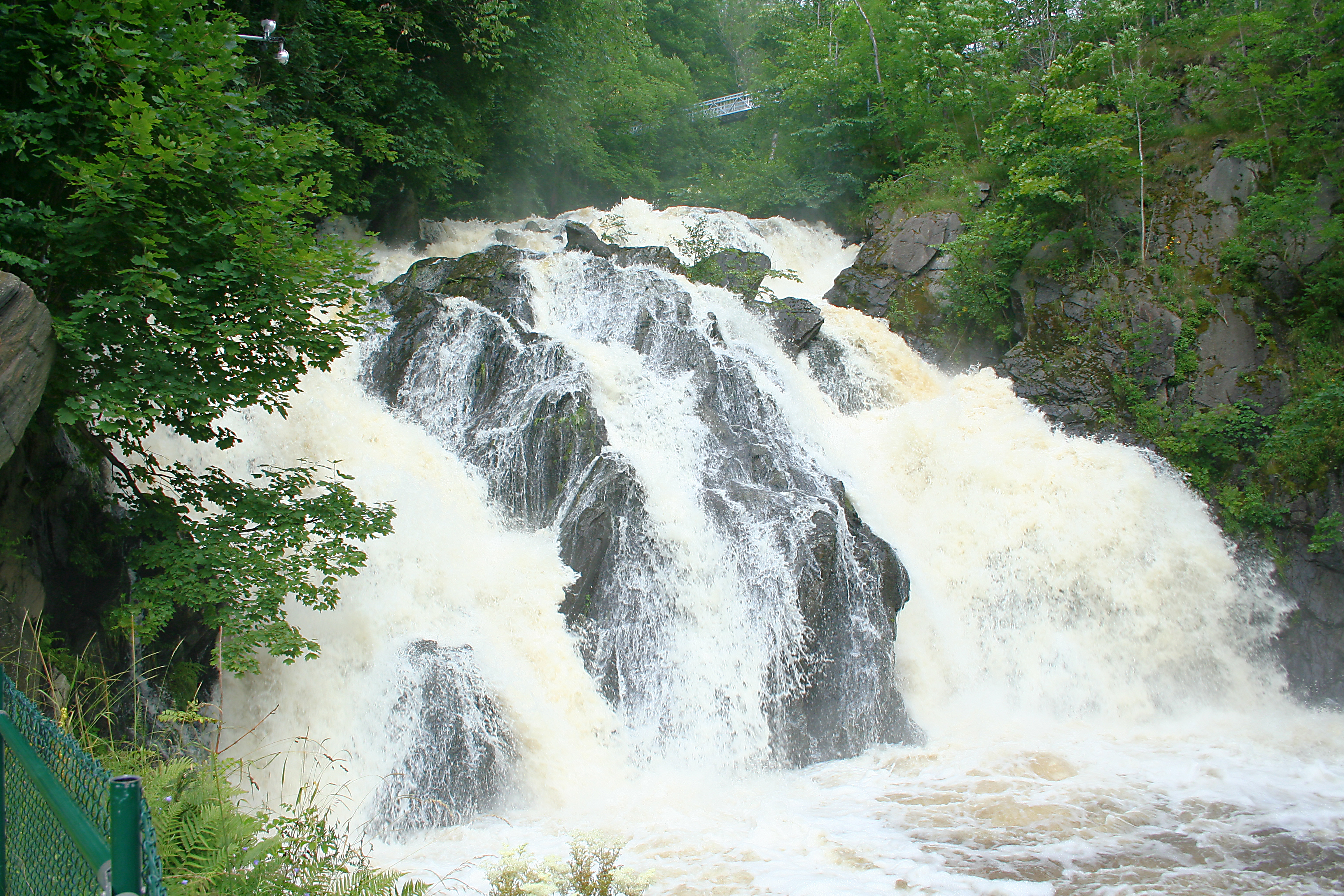 Near the waterfall in Huskvarna, Sweden.